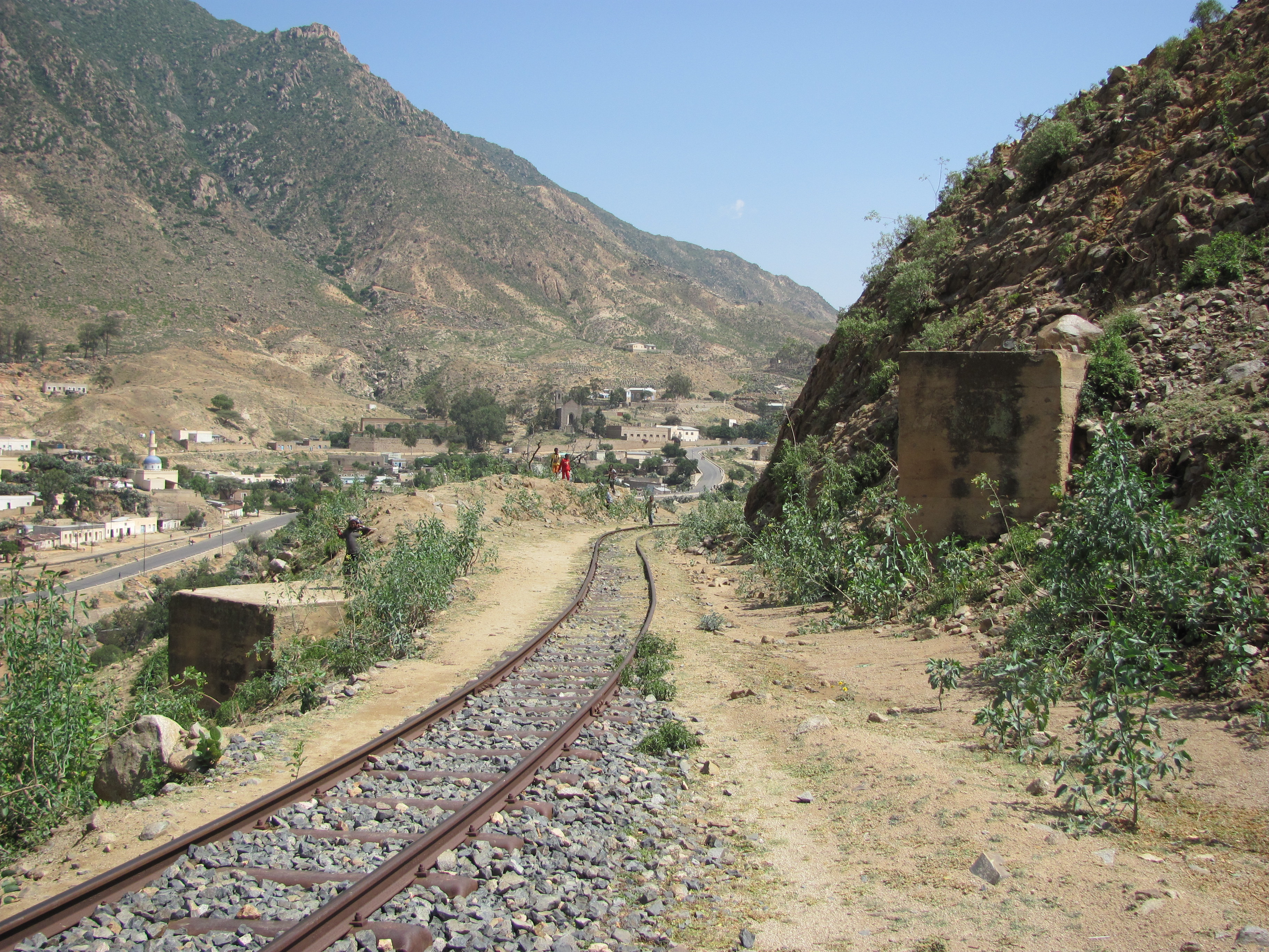 Foundation of pylon of former cableway Massawa-Asmara, Eritrea, above Nefasit; railwayline: Massawa-Asmara-Biscia